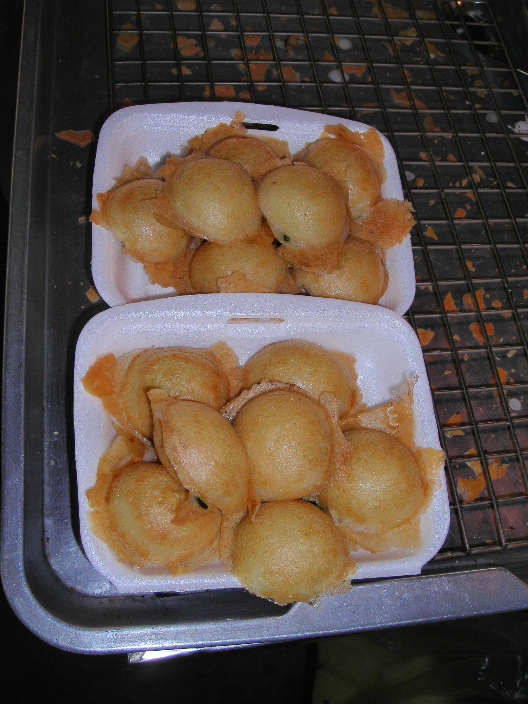 khanom krok - Thai Doughnuts with egg and coconut fillings in a foam container.